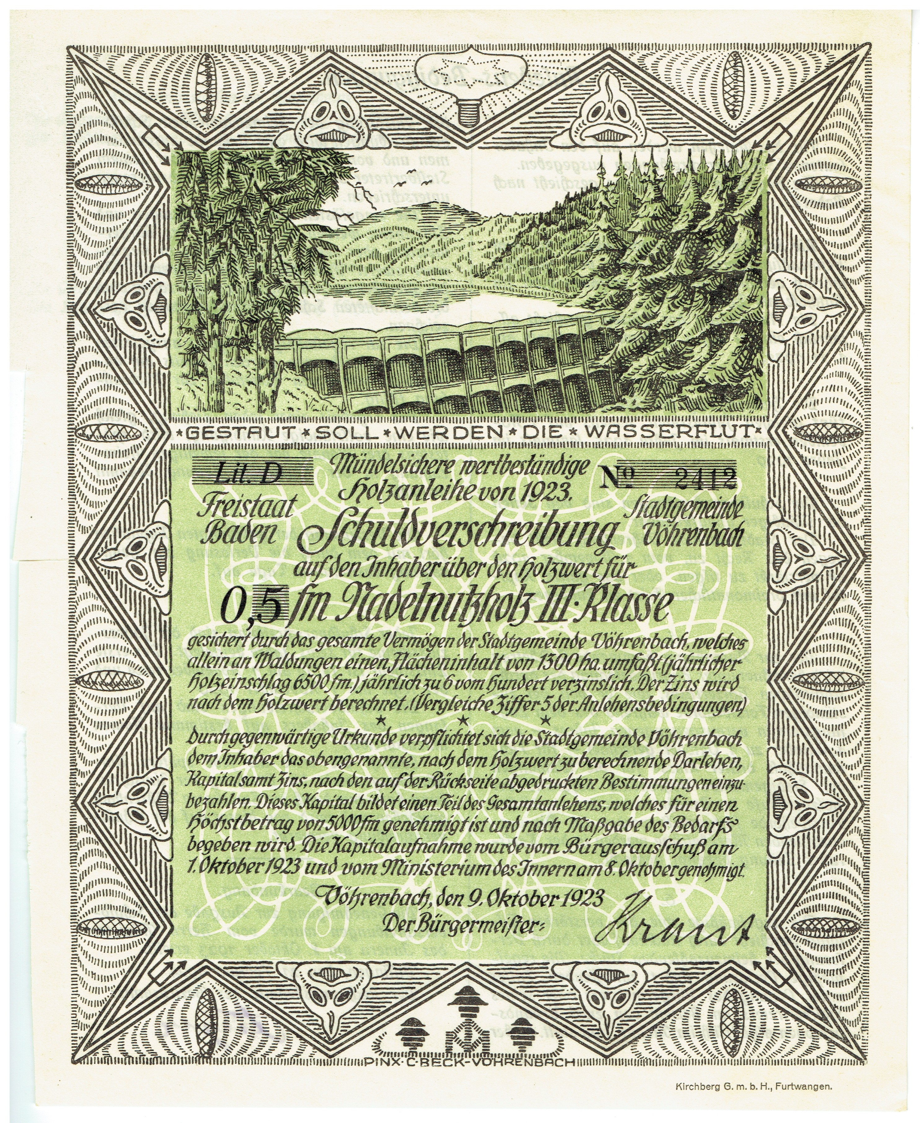 Tangible asset fond of the city of Vöhrenbach, issued 9. October 1923